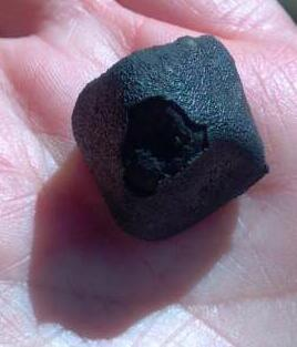 SM33 (8.5g) fragment of the Sutter's Mill meteorite found by Connie Nelson of Garden Valley, CA on 4/27/2012 near Highway 49 Bridge in Coloma, CA. Confirmed by Rubin Garcia (Mr. Meteorite).